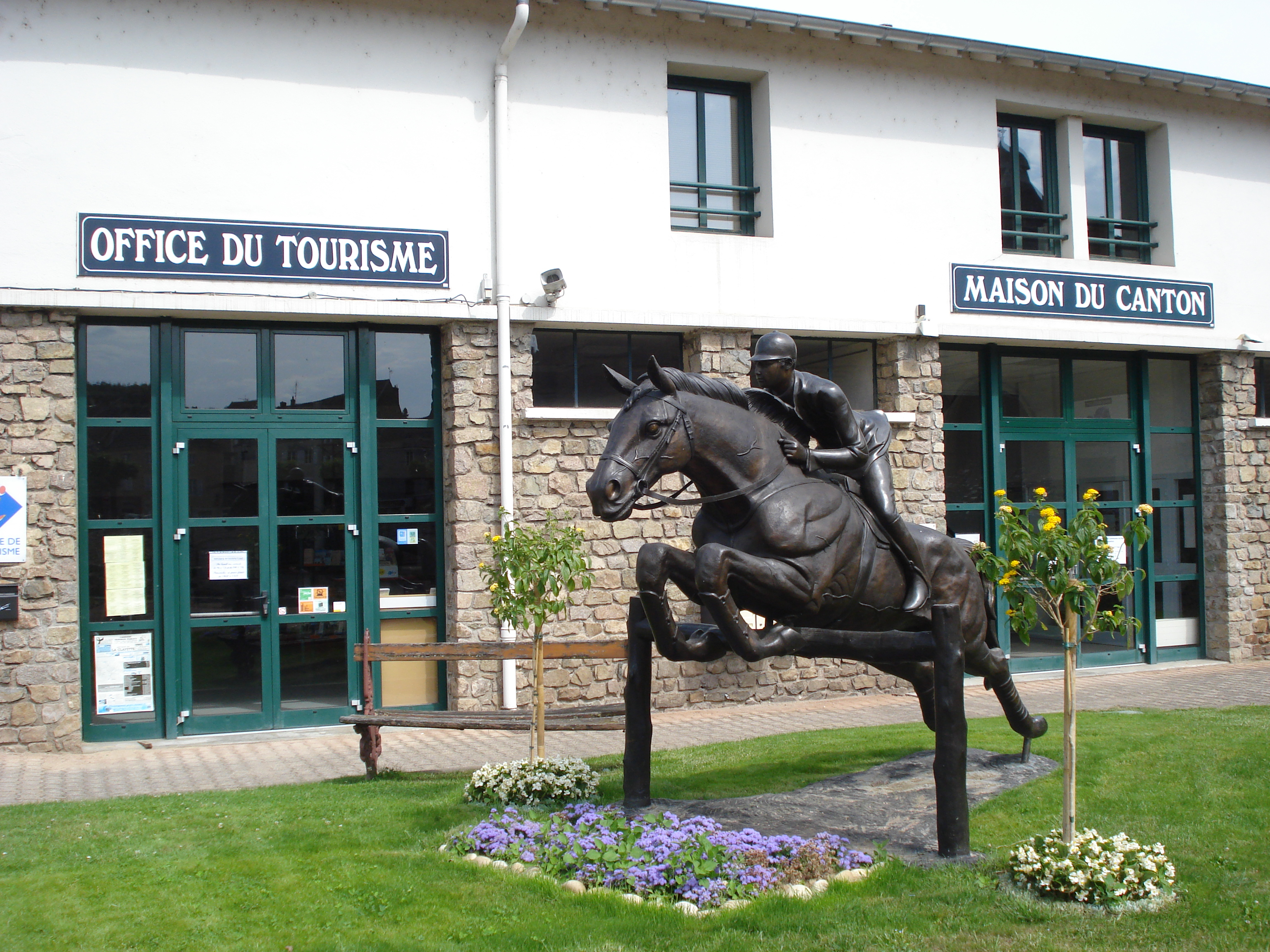 La Clayette, (Saône-et-Loire, Fr) Office de Tourisme and Maison du Canton, statue of horse with jockey